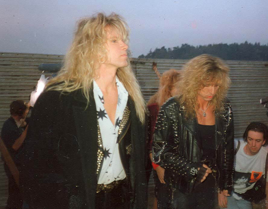 I took this backstage at the Donnington Festival in 1990. My Rock Chick phase :) Adrian Vandenberg and David Coverdale